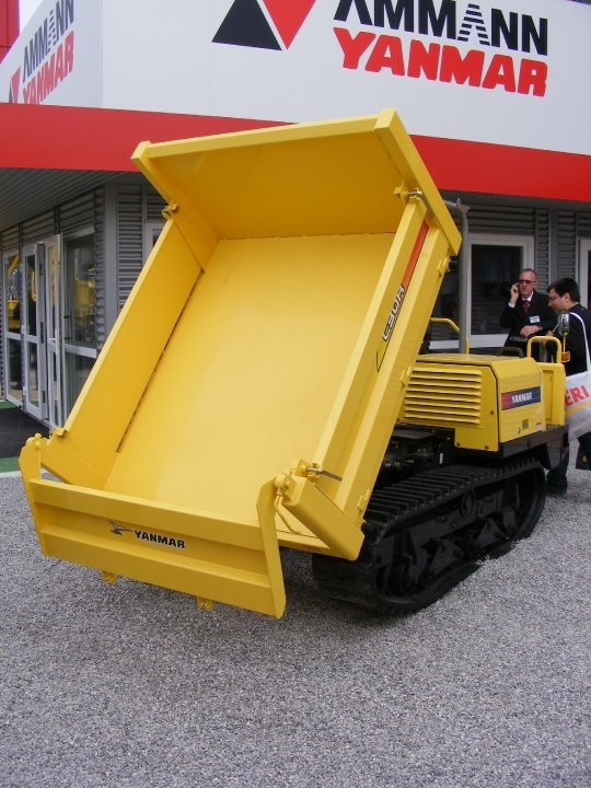 Yanmar Tracked Carrier C30R